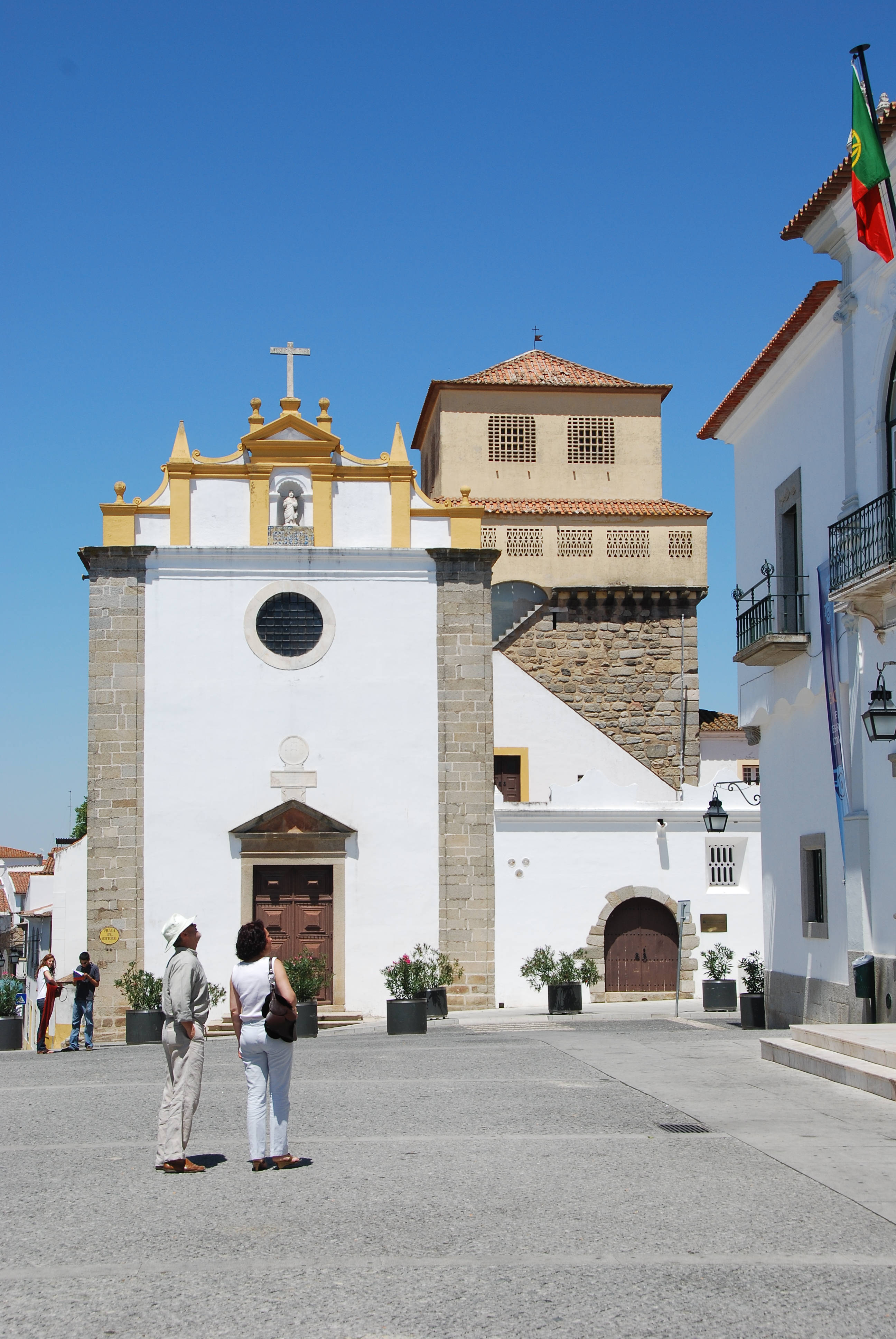 Former Salvador do Mundo Convent, Évora, Portugal.